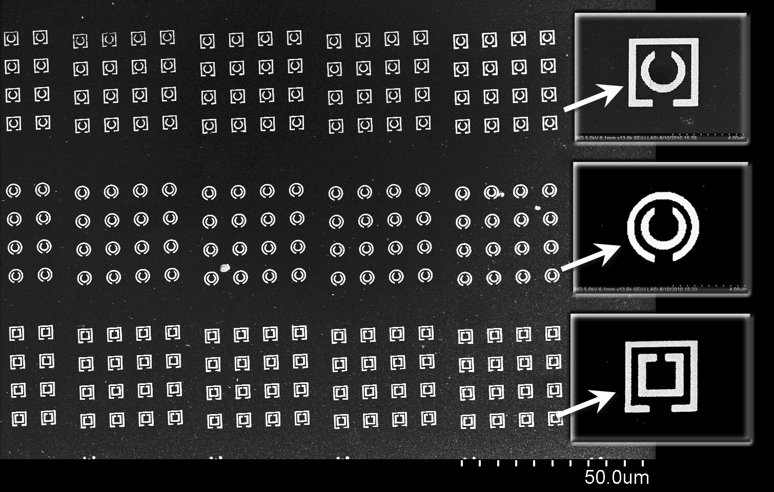 SEM image of multiple gold metastructures on silicon created using top-down DPN methods.